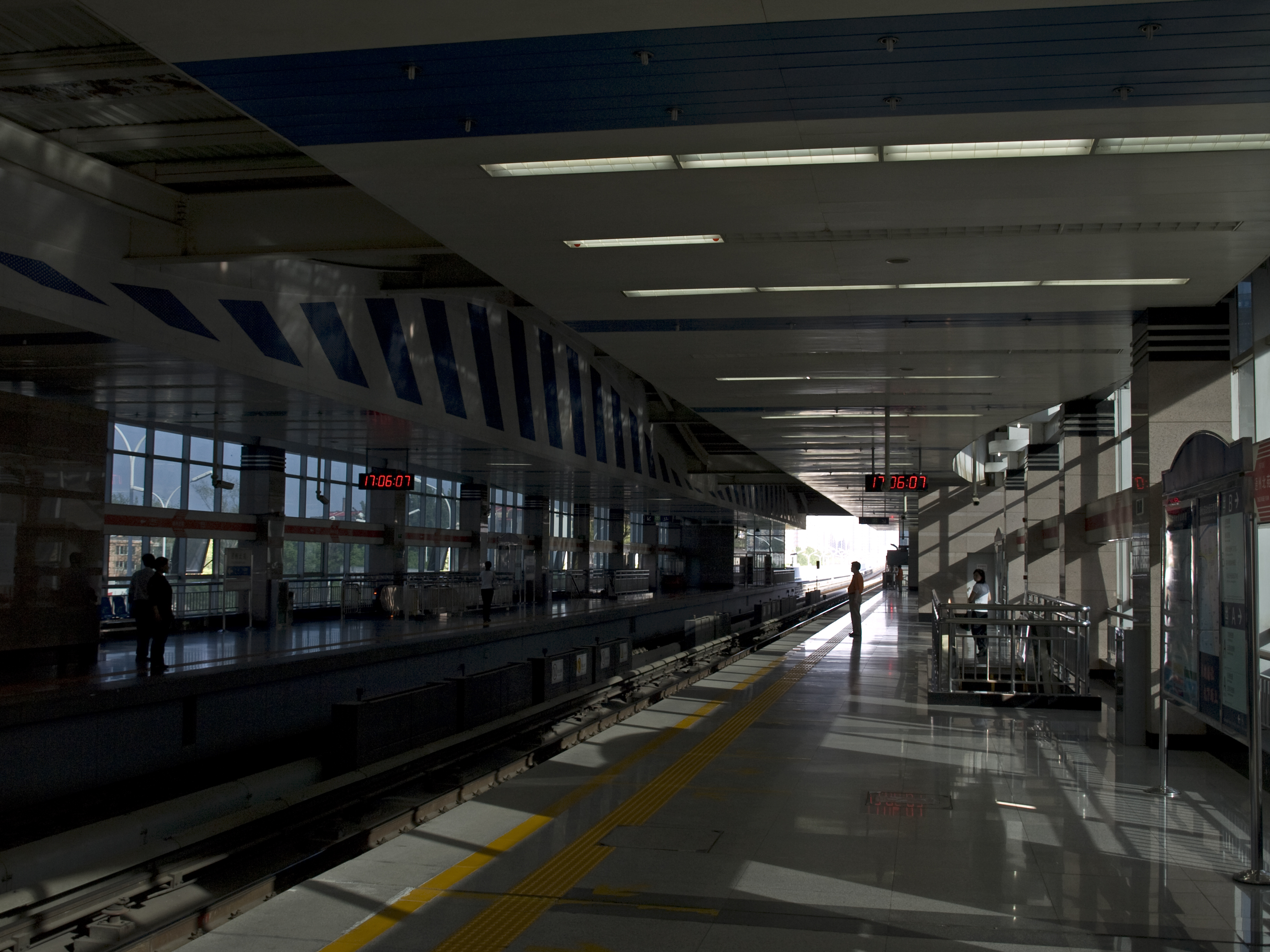 Tongzhoubeiyuan station, Beijing Subway